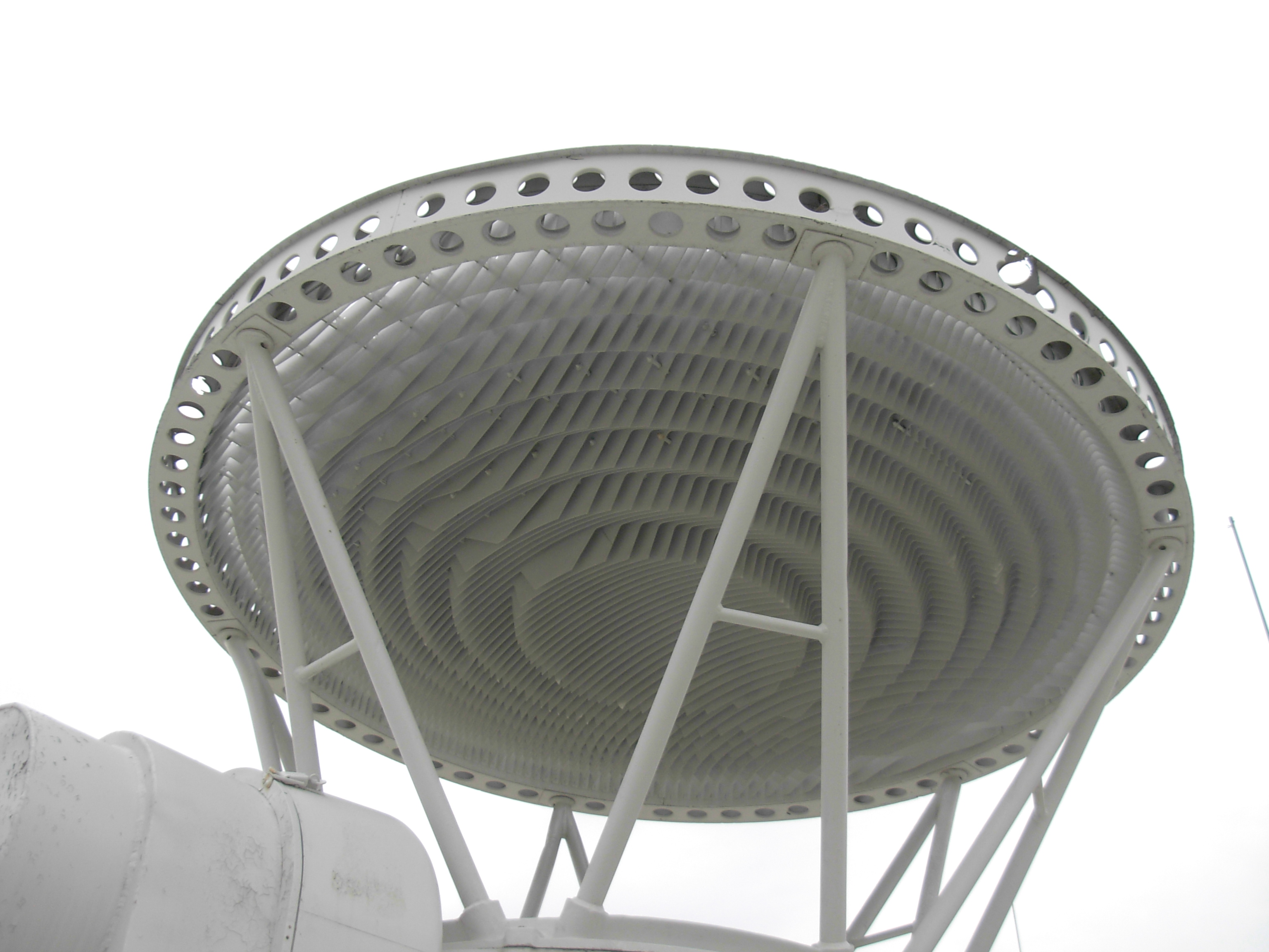 The antenna of the MPA-4 target tracking radar used with the US Air Force MIM-3 Nike Ajax anti-aircraft missile, the US's first anti-aircraft missile, in service from 1954 through the 1960s. It is a lens antenna, composed of a round lattice of parallel strips of metal of various thicknesses, in the form of a Fresnel lens. Microwaves from a feed horn below pass through the lens, which focuses them into a parallel beam which tracks the target aircraft. It functions similarly to a convex optical lens, slowing the velocity of the waves passing through the center, while increasing the velocity of the waves through the periphery. The spaces between the strips act as waveguides of various widths. However in a converging optical lens the glass slows the speed of the waves, so the lens is made thicker in the center than the edges. In this microwave lens the waveguides actually increase the speed (phase velocity) of the microwaves, and thus have an index of refraction less than one, so to make a converging lens it must have a concave shape, thicker in the peripheral regions and thinner in the center. For more information see IFC-Tracking Radars page, Ed Thelen's Nike Missile website DSCN1610